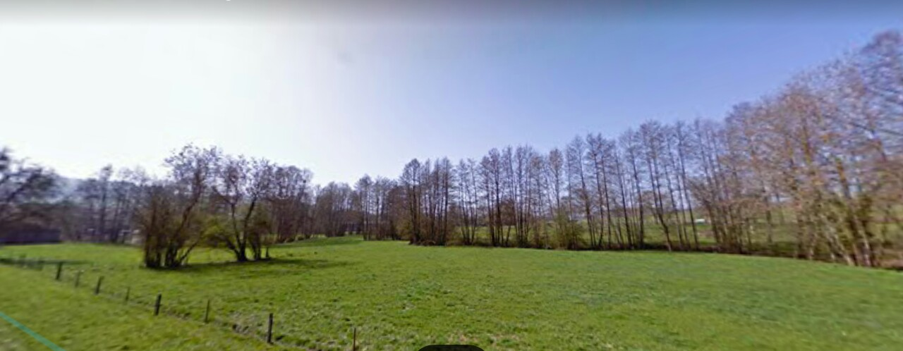 The convergent belts of trees planted watercources indicates the confluence of the Petit Moulin with the Bièvre (on the left) at Oches, the Ardennes dept, Grand Est, France.